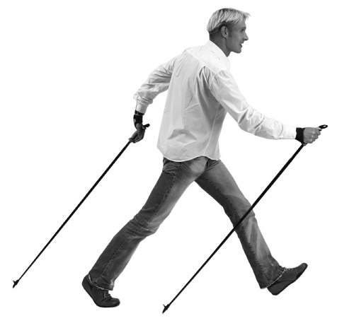 Marko Kantaneva nordic walking.